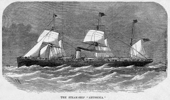 Steam ship Abyssinia